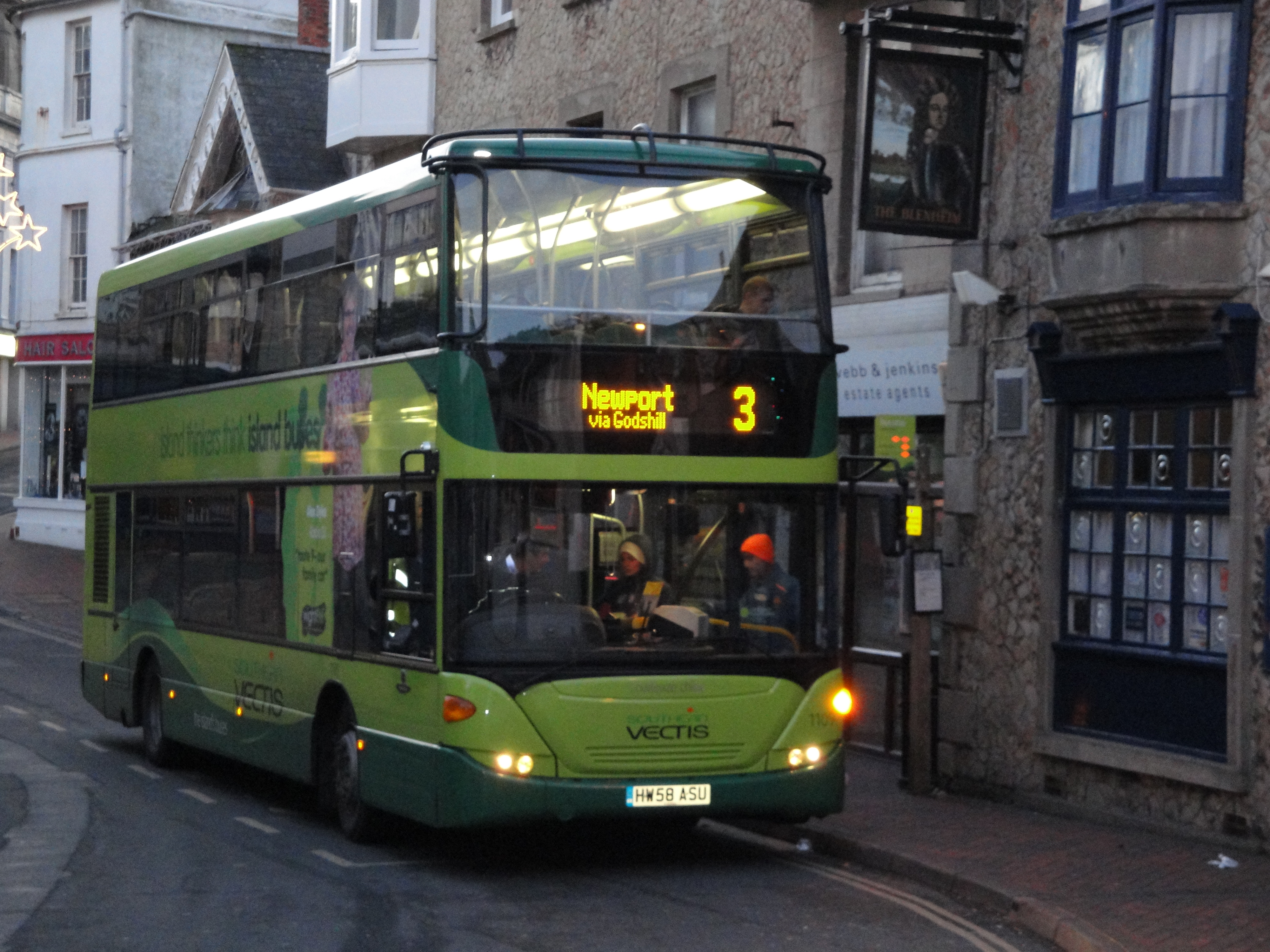 Southern Vectis 1109 Cowleaze Chine (HW58 ASU), a Scania CN270UD 4x2 EB OmniCity (built 2008) in the High Street, Ventnor, Isle of Wight on route 3. This photo was taken on Christmas Day 2009, with Southern Vectis running main routes 1, 3 and 9 to quite a comprehensive timetable for the day, with services running late into the night, to about 11 o' clock. Southern Vectis ran potentially the best Christmas service anywhere in the UK in 2009, with a full Sunday service on Boxing Day, and routes running as normal on Christmas Eve and New Year's Eve, not finishing early but in fact running into the early hours of the next day.